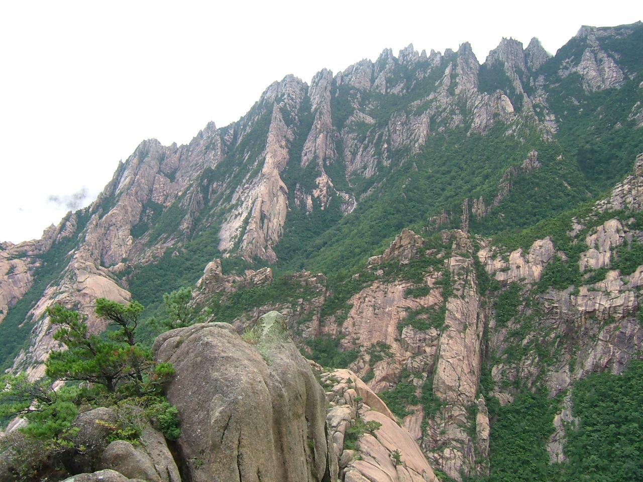 Sejonbong, Kumgangsan